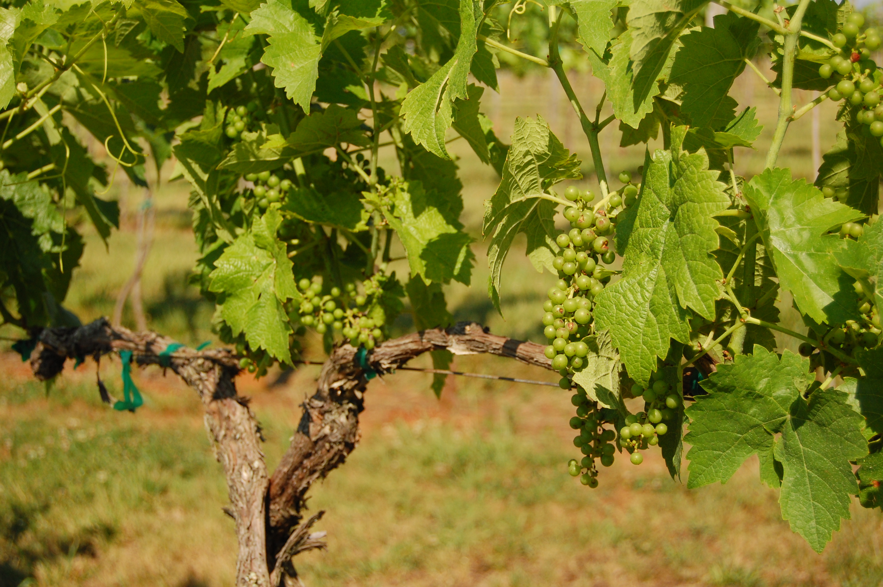 From author: "Oakencroft Vineyard & Winery - Charlottesville, VA Photo by Amy C Evans, SFA oral historian June 2008 "